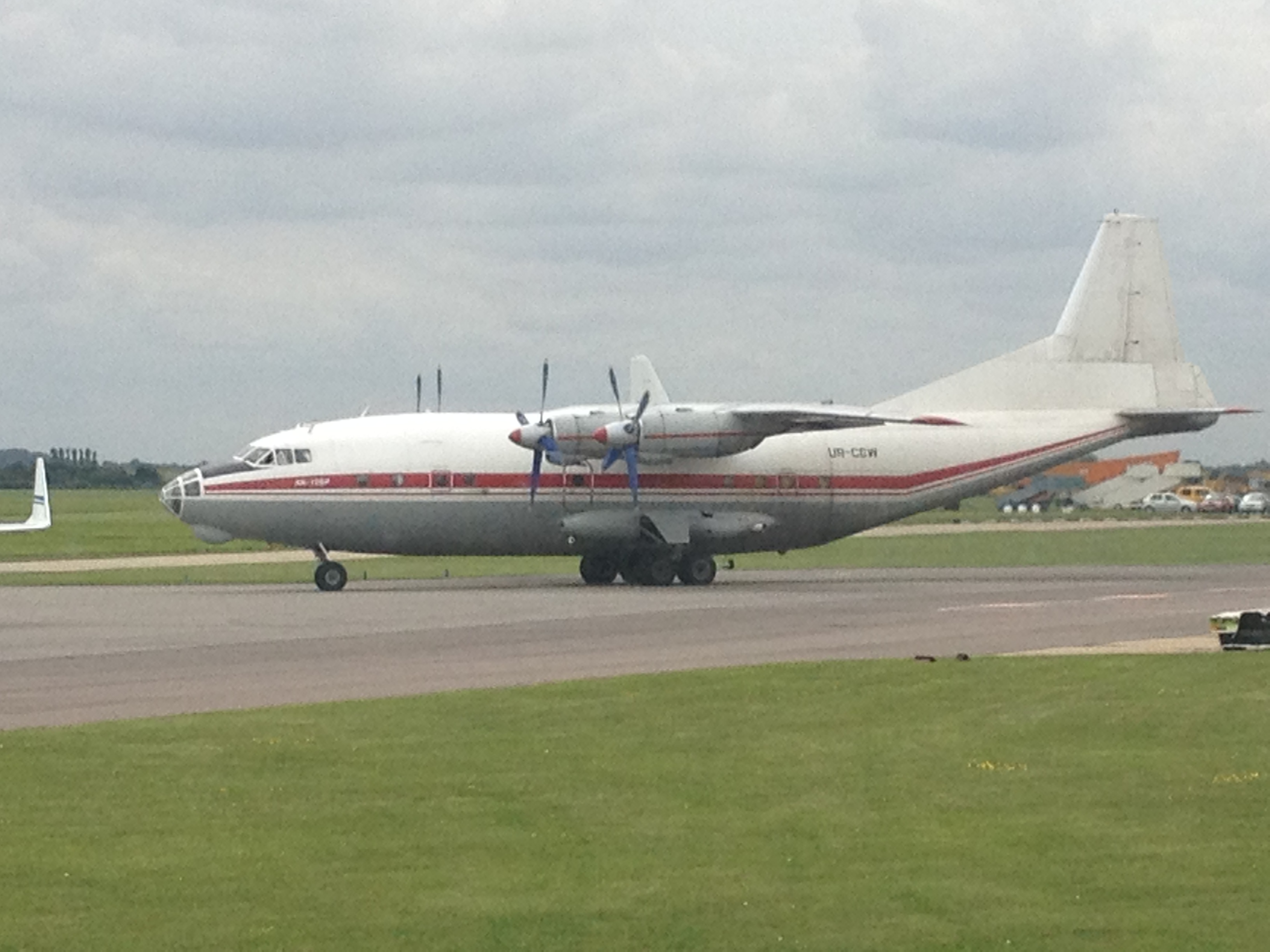 Freighter aircraft are frequently deployed for equine movements to and from CBG associated with nearby Newmarket Racecourse